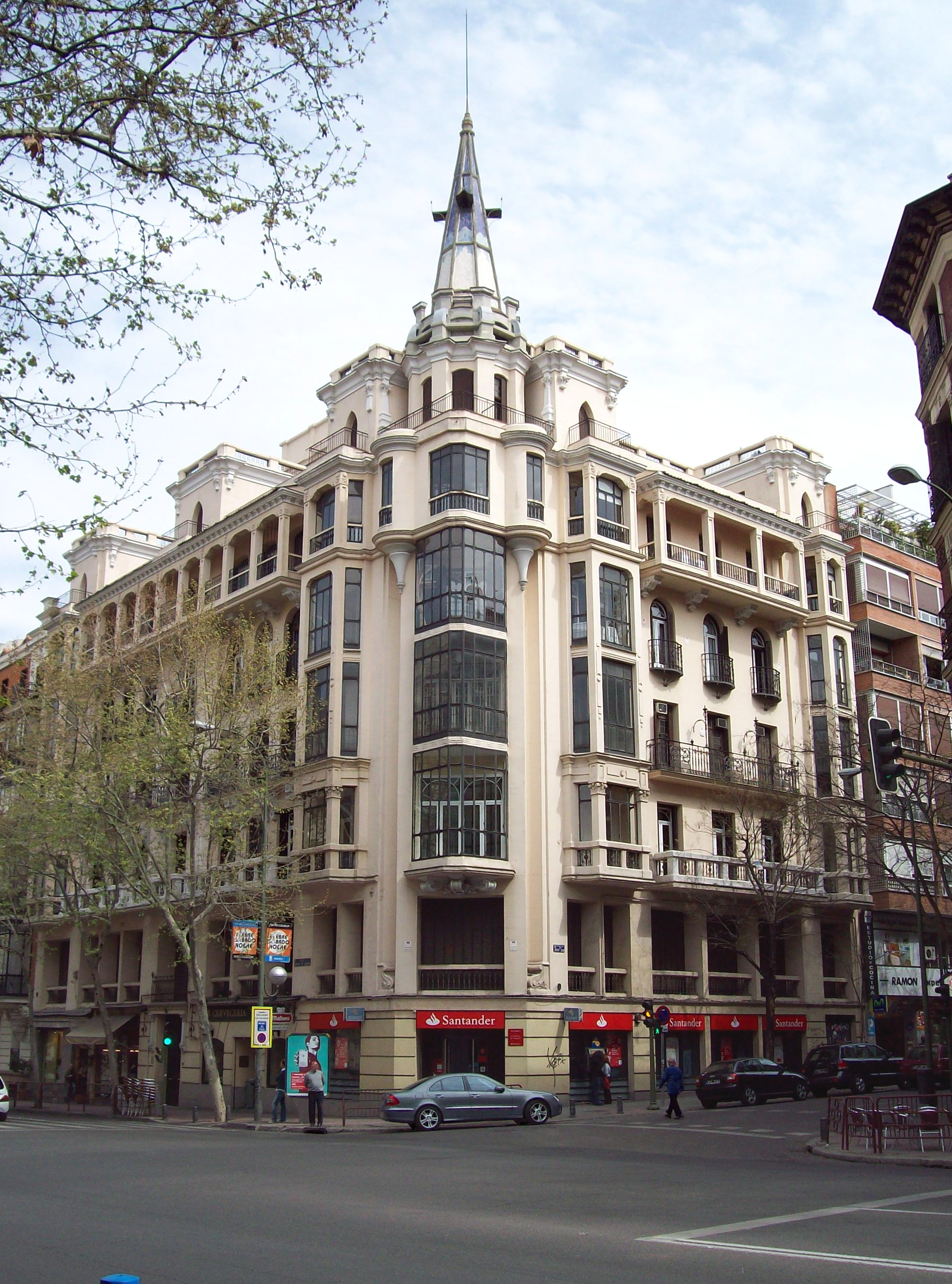 Façade of the building at 8 Calle del Príncipe de Vergara (street) in Salamanca district in Madrid (Spain). It was projected in 1912 by Jesús Carrasco-Muñoz Encina and made between 1913 and 1918 as a housing building for Leopoldo Daza.